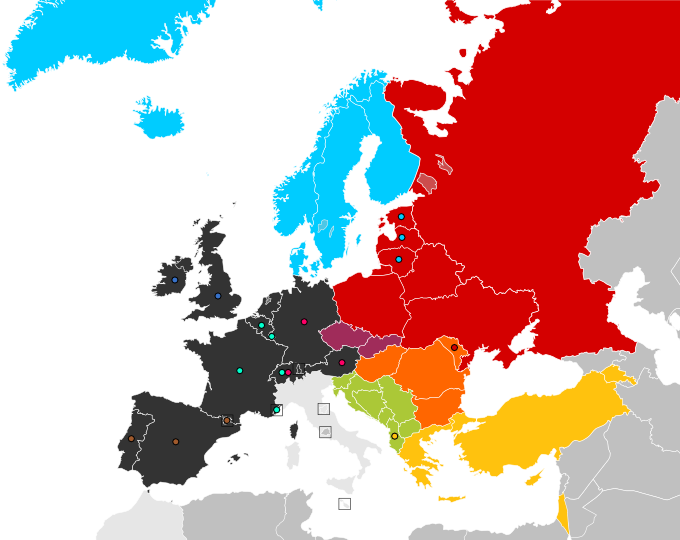 Map of Europe highlighting the « alliances » between countries.